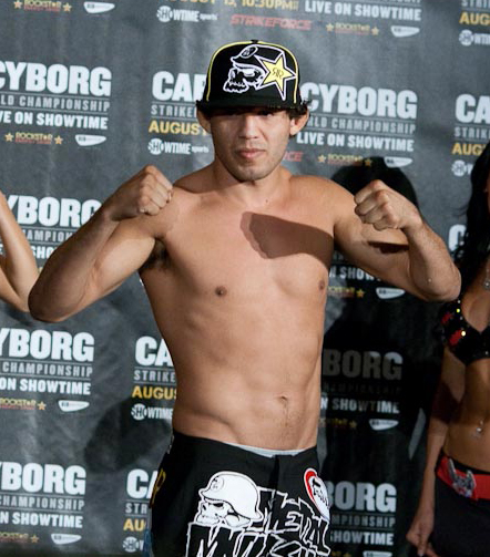 Mexican-American mixed martial arts fighter Gilbert Melendez, at the weigh-in before the Strikeforce: Carano vs. Cyborg event.